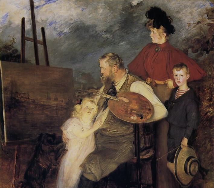 Le peintre Thaulow et ses enfants, Paris, musée d'Orsay.